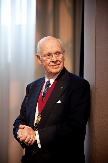 Claes Nobel, at the 2011 meeting of the National Society of High School Scholars in Atlanta, Georgia.